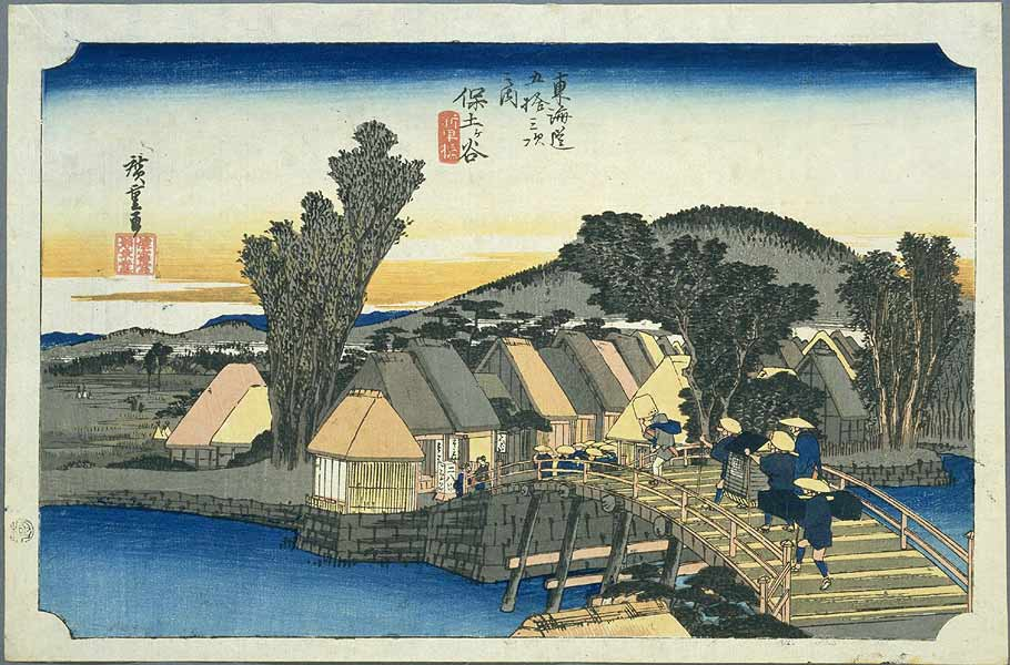 Hodogaya on the Tokaido, ukiyo-e prints by